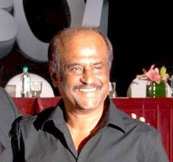 Rajinikanth at the audio release of Enthiran